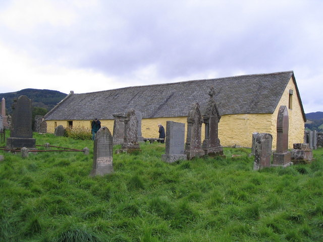 St Mary's Church and graveyard at Grandtully The church dates from 1533 and served the settlement of Pitcairn, around Grantully Castle. It was extended in 1636, served as a church for 9 years from 1883 and then abandoned to be used as a byre and farm store. It was saved from destruction and restored in 1944.